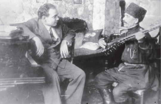 Said Rustamov and Ashig Islam